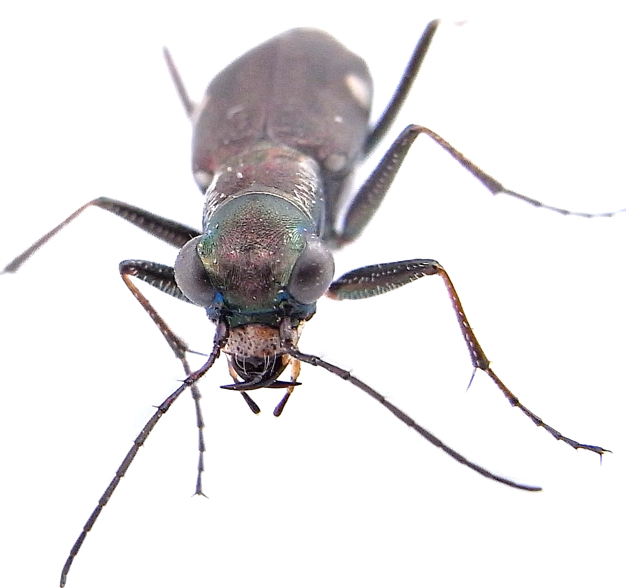 Cylindera germanica from Hungary, in Matra-mountains at 2010-06-24 Ricoh R8